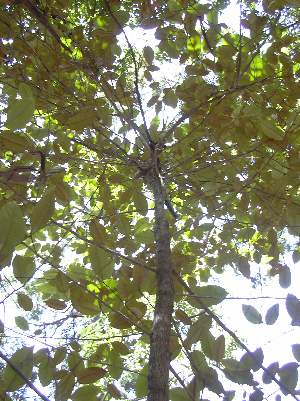 Chrysophyllum oliviforme (habit). Location: Maui, Kauhikoa hill